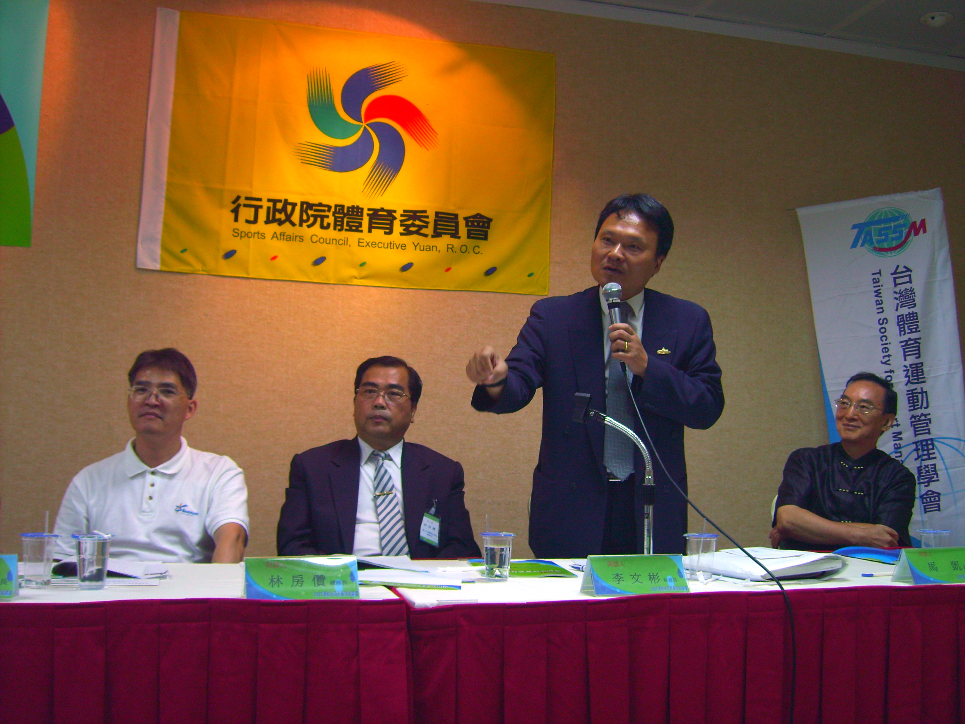 2007 Leisure Taiwan: Sport and Recreation Industry Development Forum Panel Discussion.